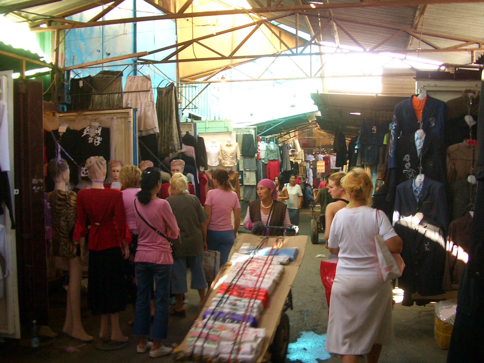 Clothing stalls in Dordoy Bazaar, Bishkek.